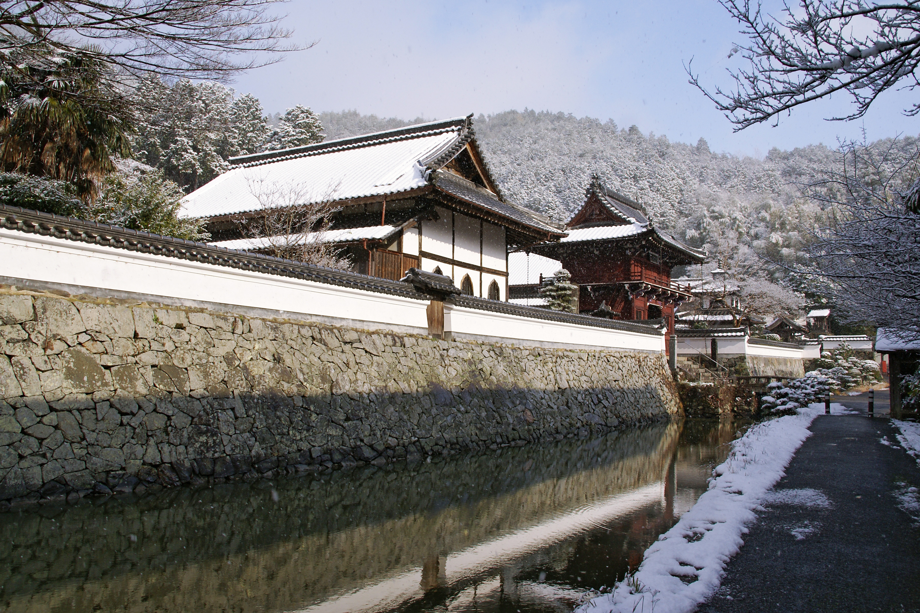 Kozenji in Tamba City, Hyogo prefecture, Japan